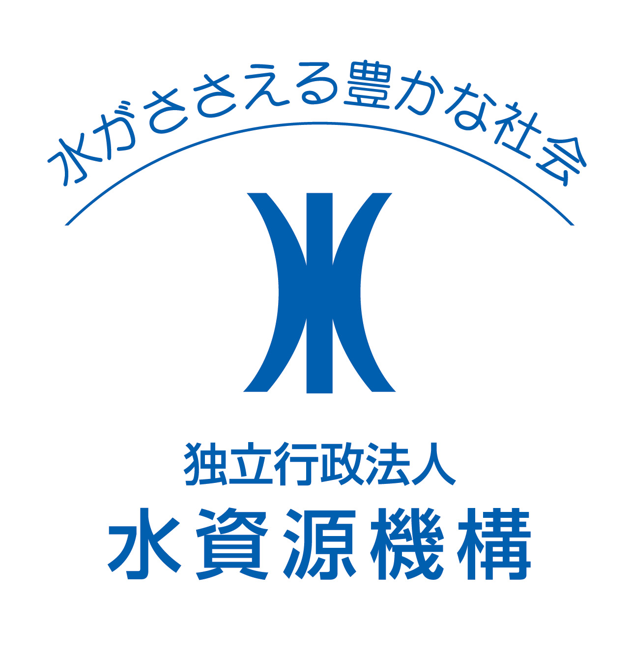 Logo of Incorporated Administrative Agency Japan Water Agency